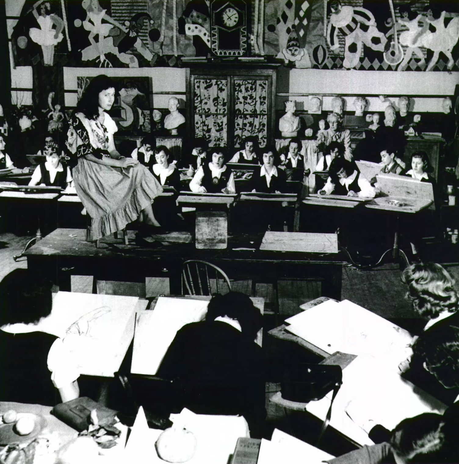 Roselly Miller modeling in Anne Savage's art class at Baron Byng High School, 1948